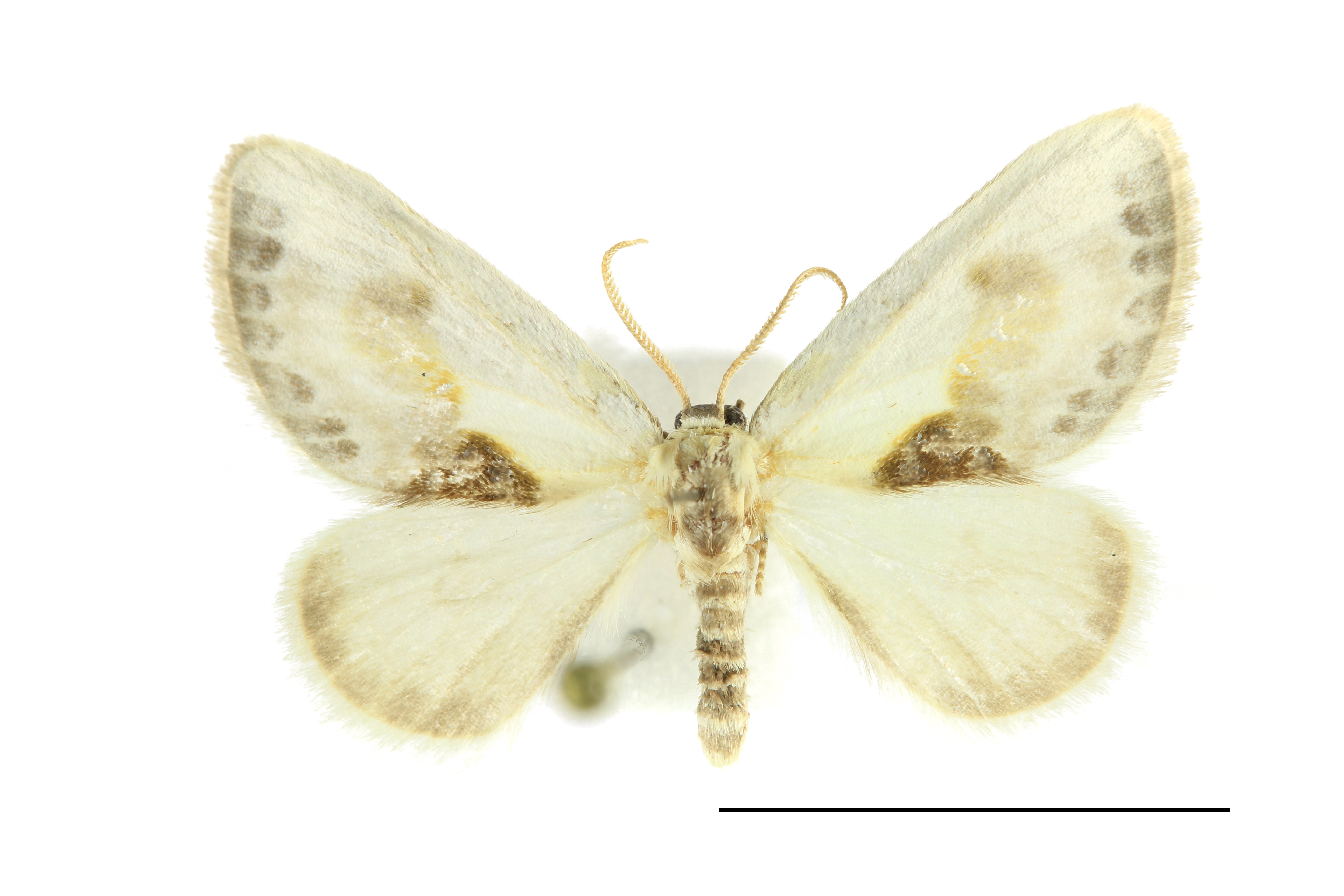 Cilix glaucata, insect collections SLU, Uppsala